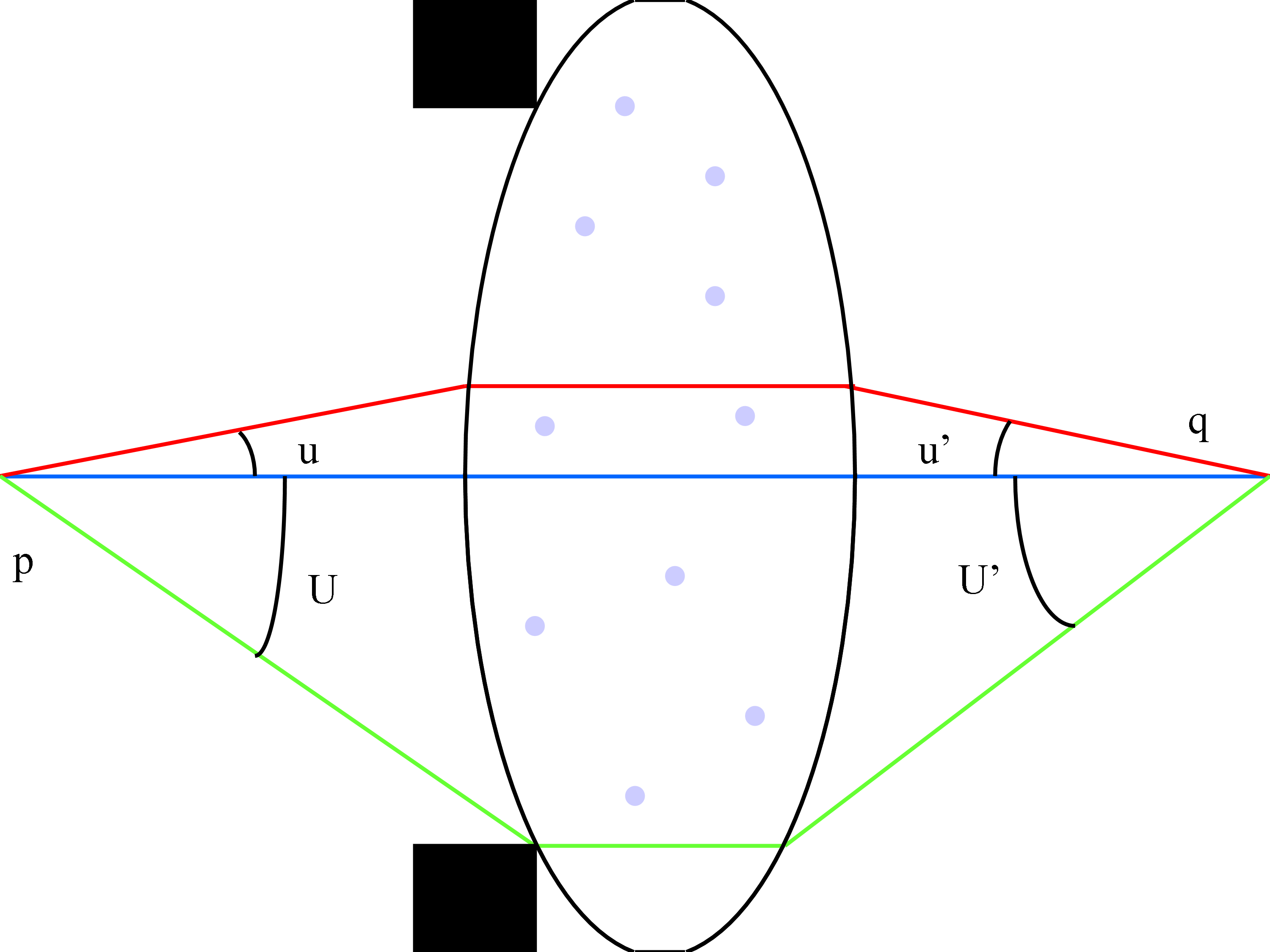 The figure can be used to illustrate the Abbe sine condition